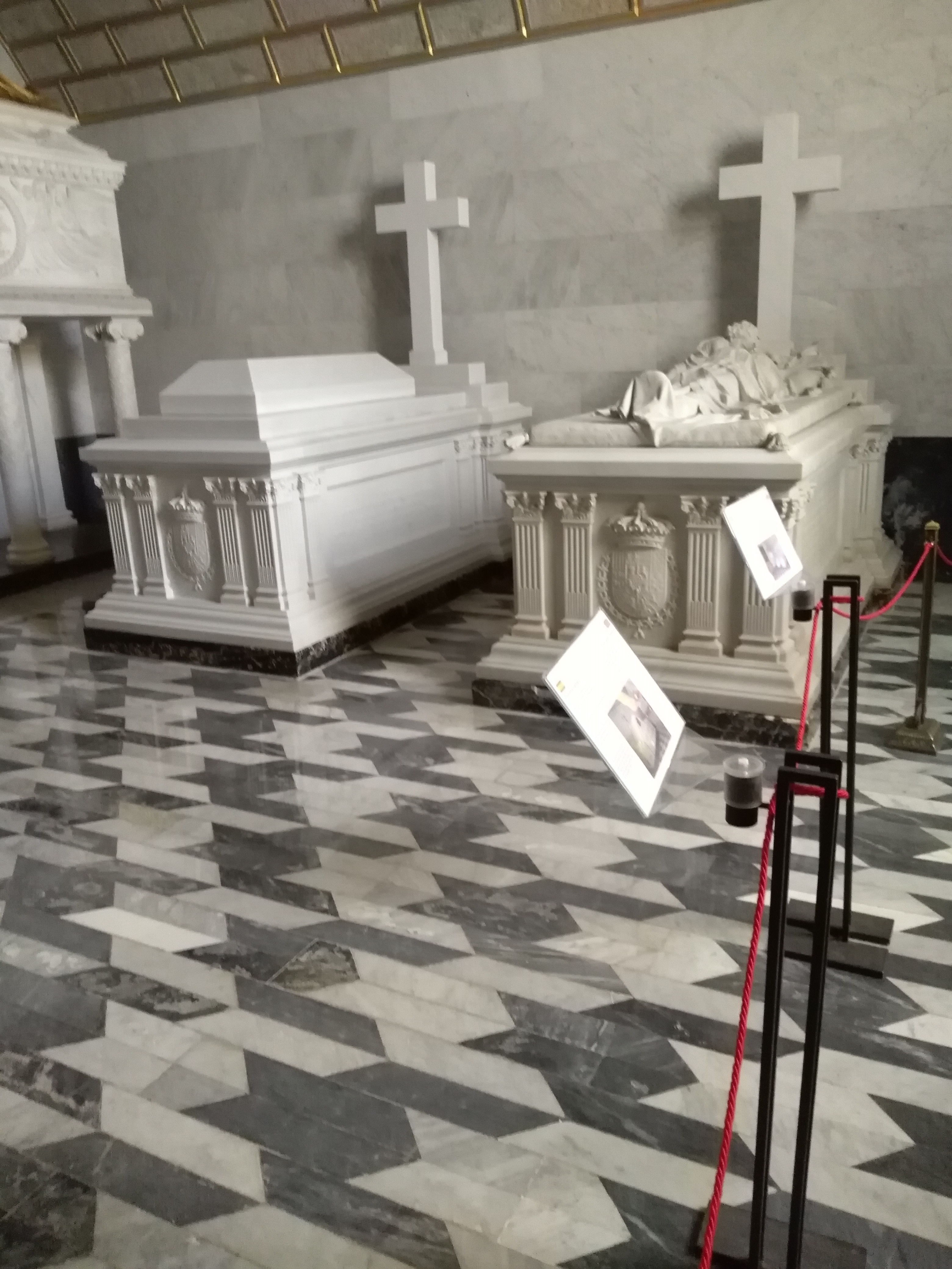 Pantheon of the Infantes - Chapel 1